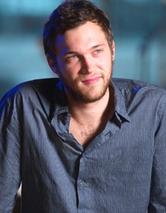 Phillip Phillips at the Walmart Soundcheck last December 17, 2013.